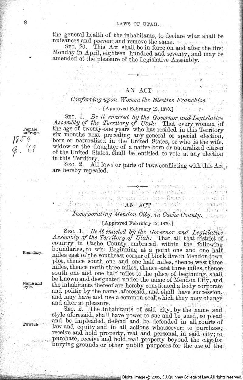 "AN ACT Conferring upon Women the Elective Franchise. [Approved February 12, 1870.] Section 1. Be it enacted by the Governor and Legislative Assembly of the Territory of Utah: That every woman of the age of twenty-one years who has resided in this Territory six months next preceding any general or special election, born or naturalized in the United States, or who is the wife, widow, or the daughter of a native-born or naturalized citizen of the United States, shall be entitled to vote at any election in this Territory. Sec. 2. All laws or parts of laws conflicting with this Act are hereby repealed."